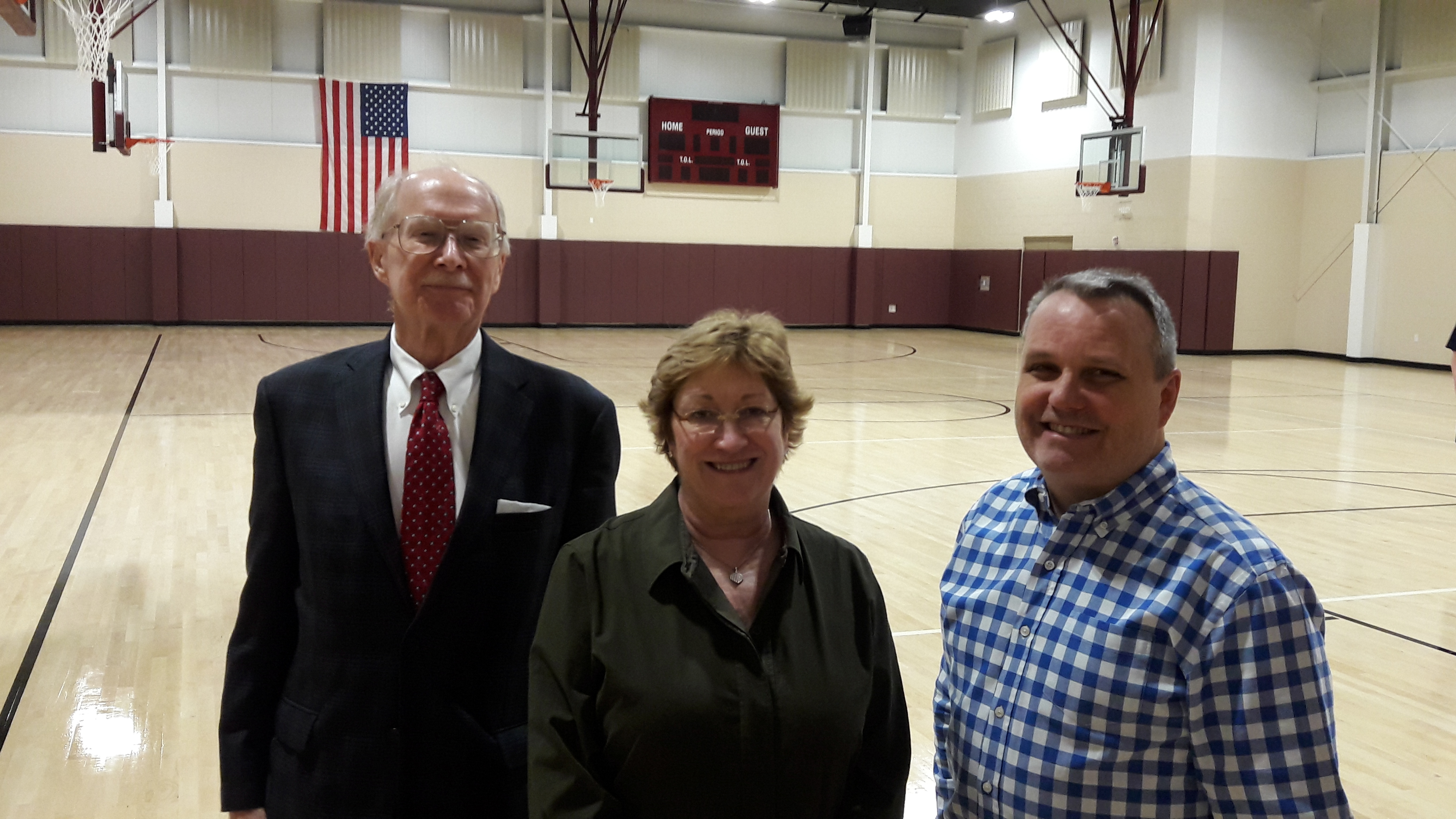 Left to right: Dennis McGuire, Mayor Nora Radest, and Council member Matt Gould, at the opening of the renovated and expanded Summit Community Center in May 2019. The rebuilt facility features two gymnasiums, a senior lounge including a fireplace, meeting room and game room, a small kitchen, and administrative offices.